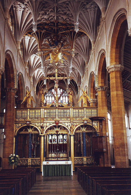 Inside the nave of the parish church of St Mary the Virgin, Wellingborough, Northamptonshire, looking east to the rood screen